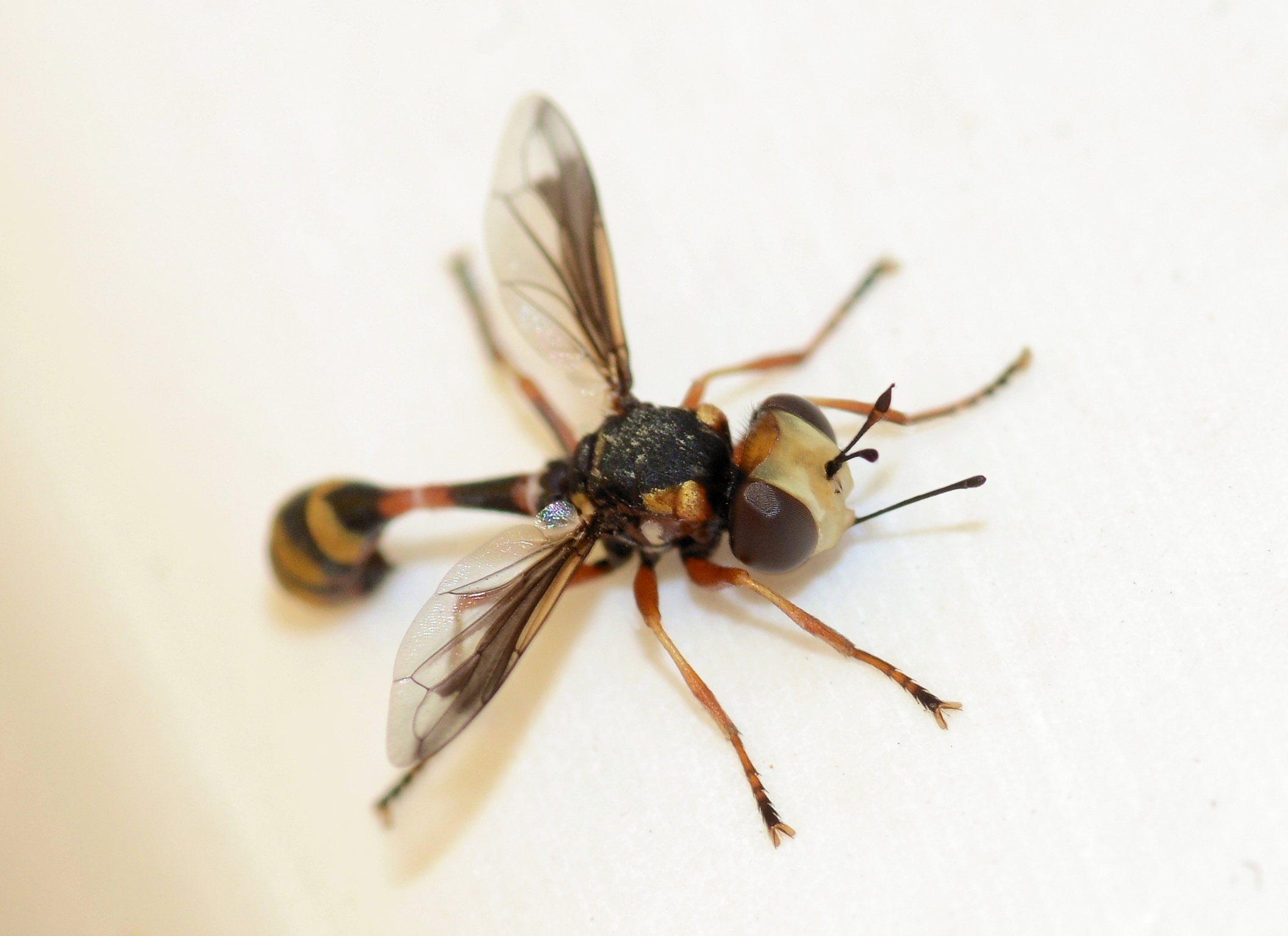 A fly of the Conopidae family (Physocephala pusilla)